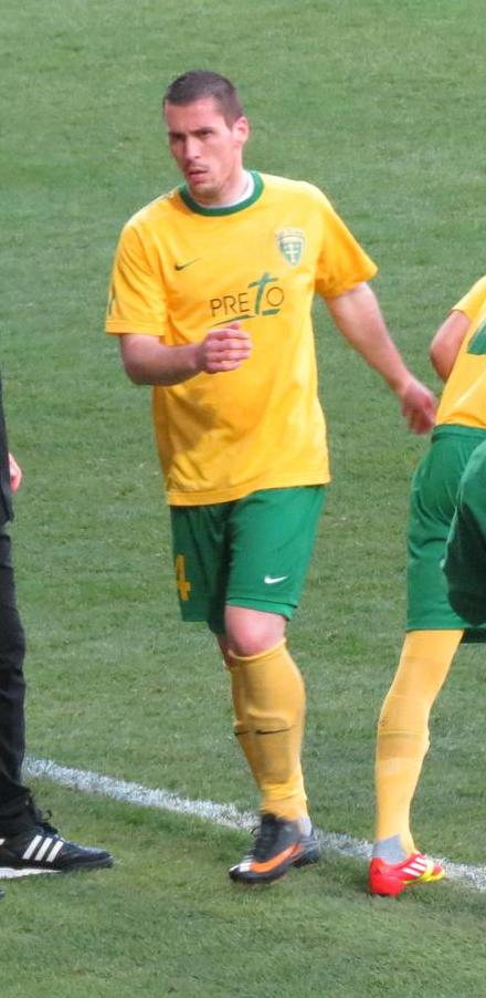 Photo - Slovak footballer Ján Novák